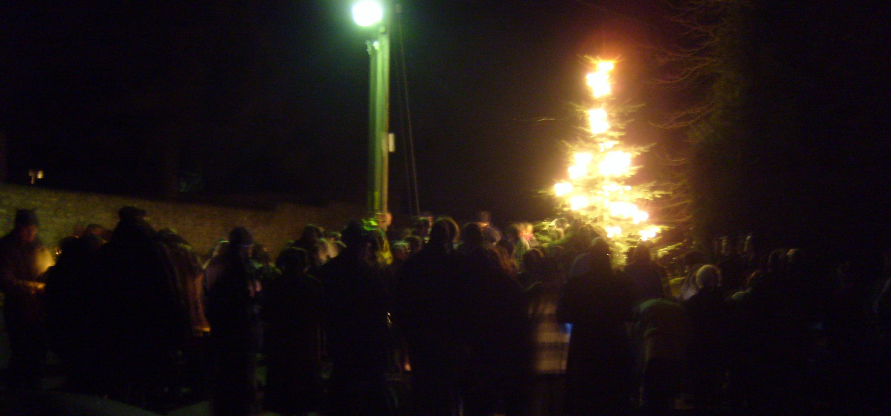 Cuddesdon villagers and students Christmas Carolling on the village green 16 December 2007 EdwardKeene, my camera, no URL, all's fair in love and war. EdwardKeene, my camera, no URL, all's fair in love and war.